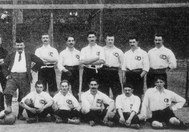 Players of the French national football team posing in their first match ever, v. the Belgium side. Standing: Guichard, Canelle, Davy, Verlet, Bilot G., Bilot C.; Bended: Mesnier, Royet, Garnier, Cyprès, Filez.